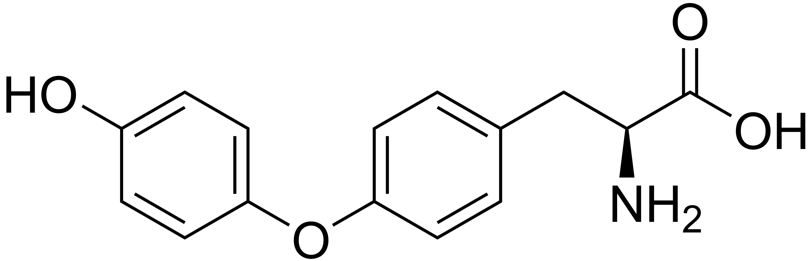 chemical structure of L-thyronine